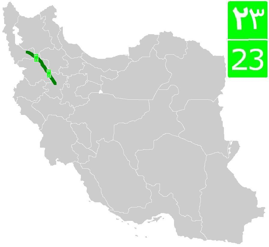 Location of Road 23 in Iran